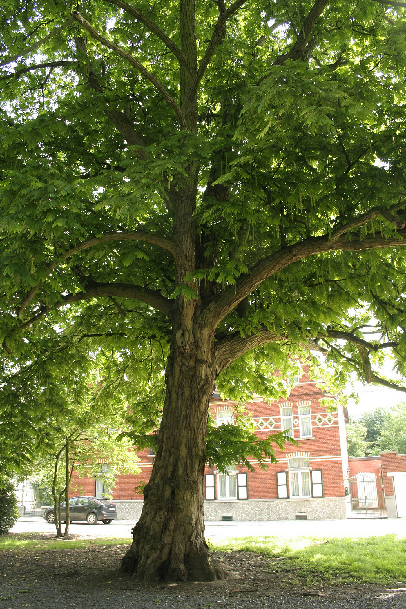 Caucasian Wing-Nut seeds